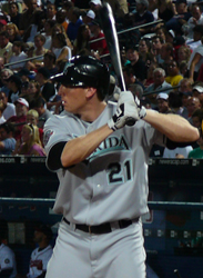 Picture I took of Joe Borchard on 6-5-07 21:42, 7 June 2007 . . Chrisjnelson . . 183×250 (94,877 bytes)